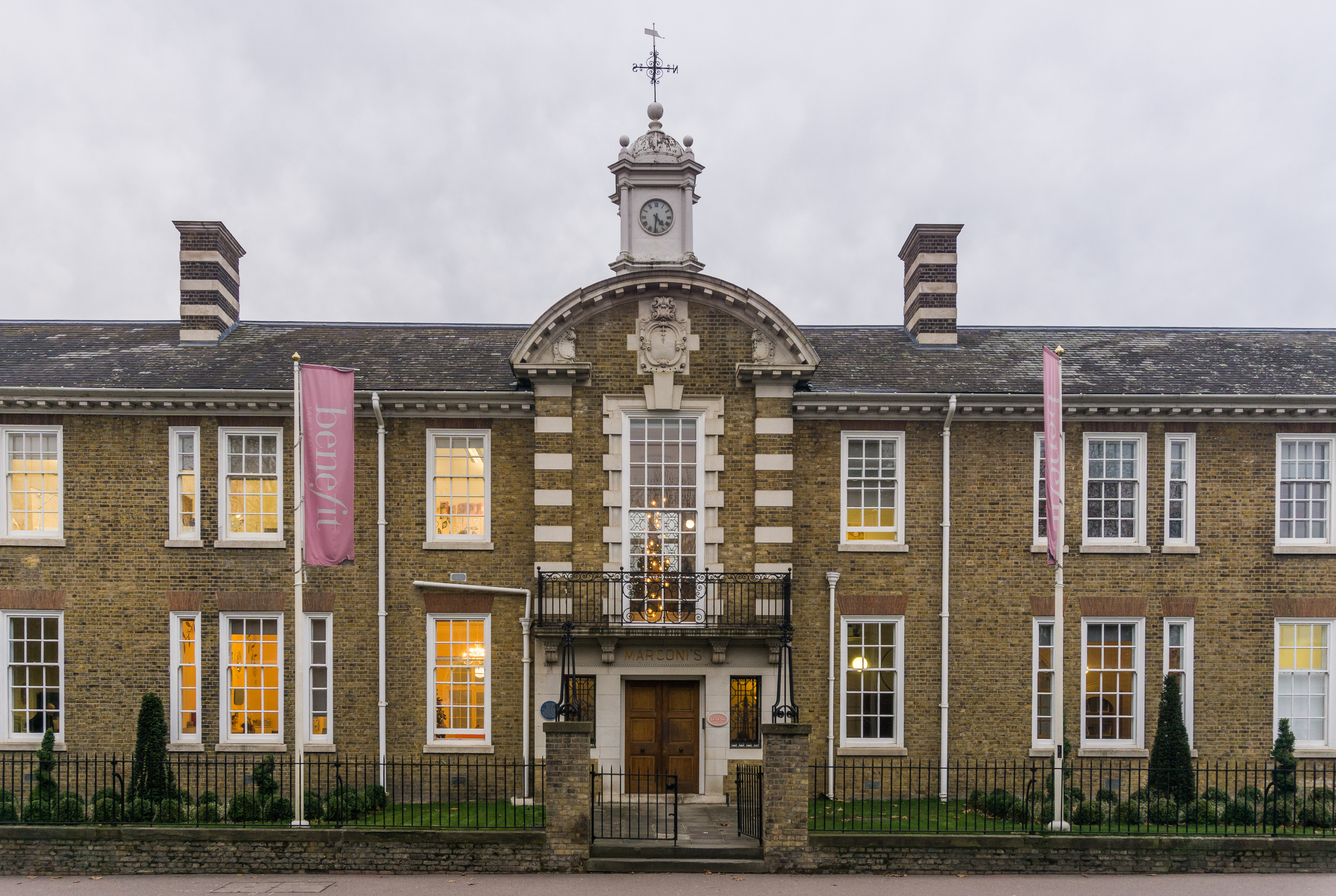 Guglielmo Marconi's New Street factory